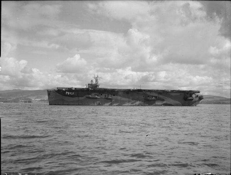 The Royal Navy during the Second World War HMS CHASER, a former American auxiliary carrier commanded by Captain H V P McClintock, at anchor at Greenock.